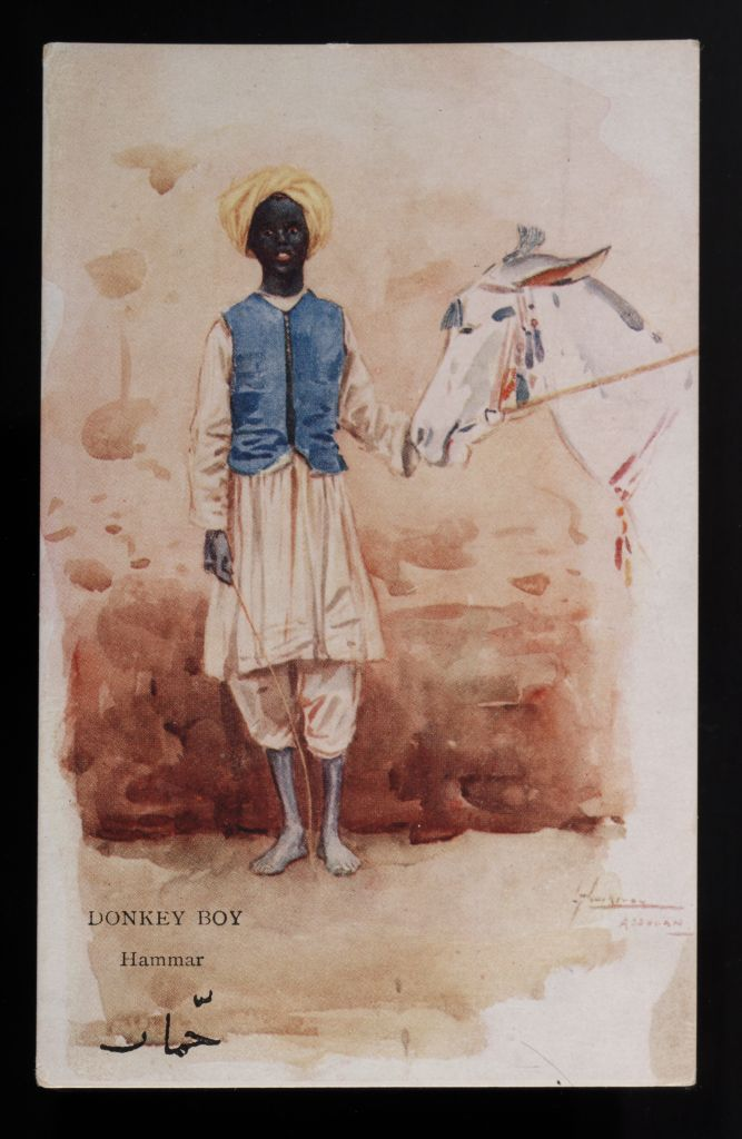 Watercolour postcard of a boy wearing a vest holding a donkey by the mouth.